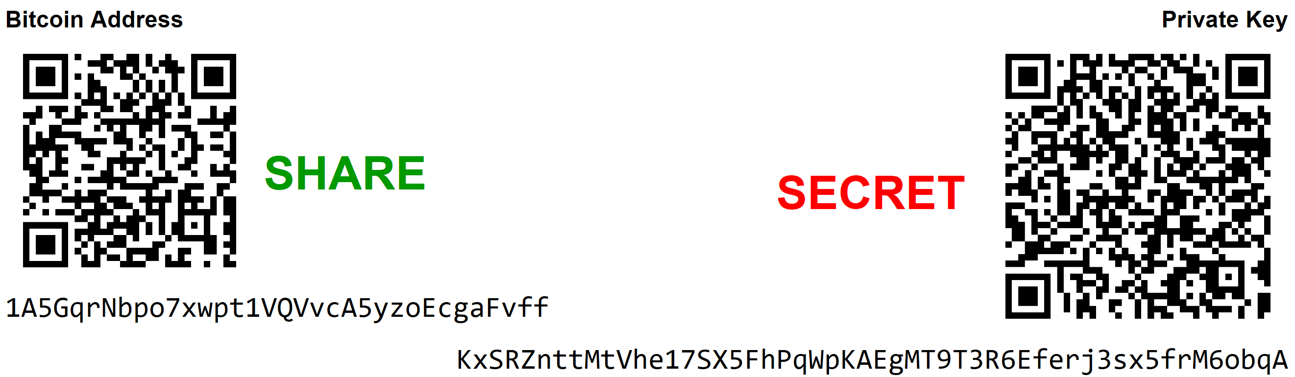 A paper printable Bitcoin wallet with QR code consisting of one bitcoin address for receiving and the corresponding private key for spending. A bitcoin address is created from the public key and uses the base58 scheme. Base58 does not use the 0 (zero), I (upper case i), O (upper case o) and l (lower case L). In some fonts these 0OIl characters look the same. The private key can be imported in (mobile application) or another compatible cryptocurrency wallet. Created on . Here on you can see all the transactions made to and from the bitcoin address 1A5GqrNbpo7xwpt1VQVvcA5yzoEcgaFvff. With the private key KxSRZnttMtVhe17SX5FhPqWpKAEgMT9T3R6Eferj3sx5frM6obqA anyone can initiate a transaction. WARNING: Do not send bitcoins to this address, because anyone can and will take them automatically within seconds!